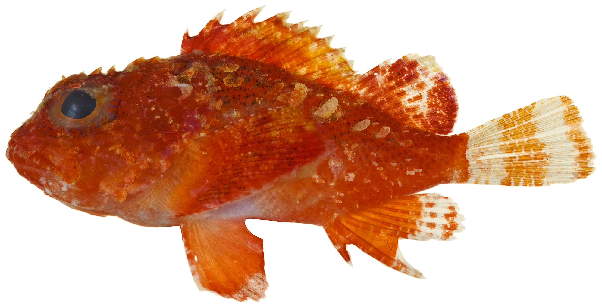 Scorpaena albifimbria Evermann & Marsh, 1900—coral scorpionfish, 37.4 mm SL. Photo by JT Williams.